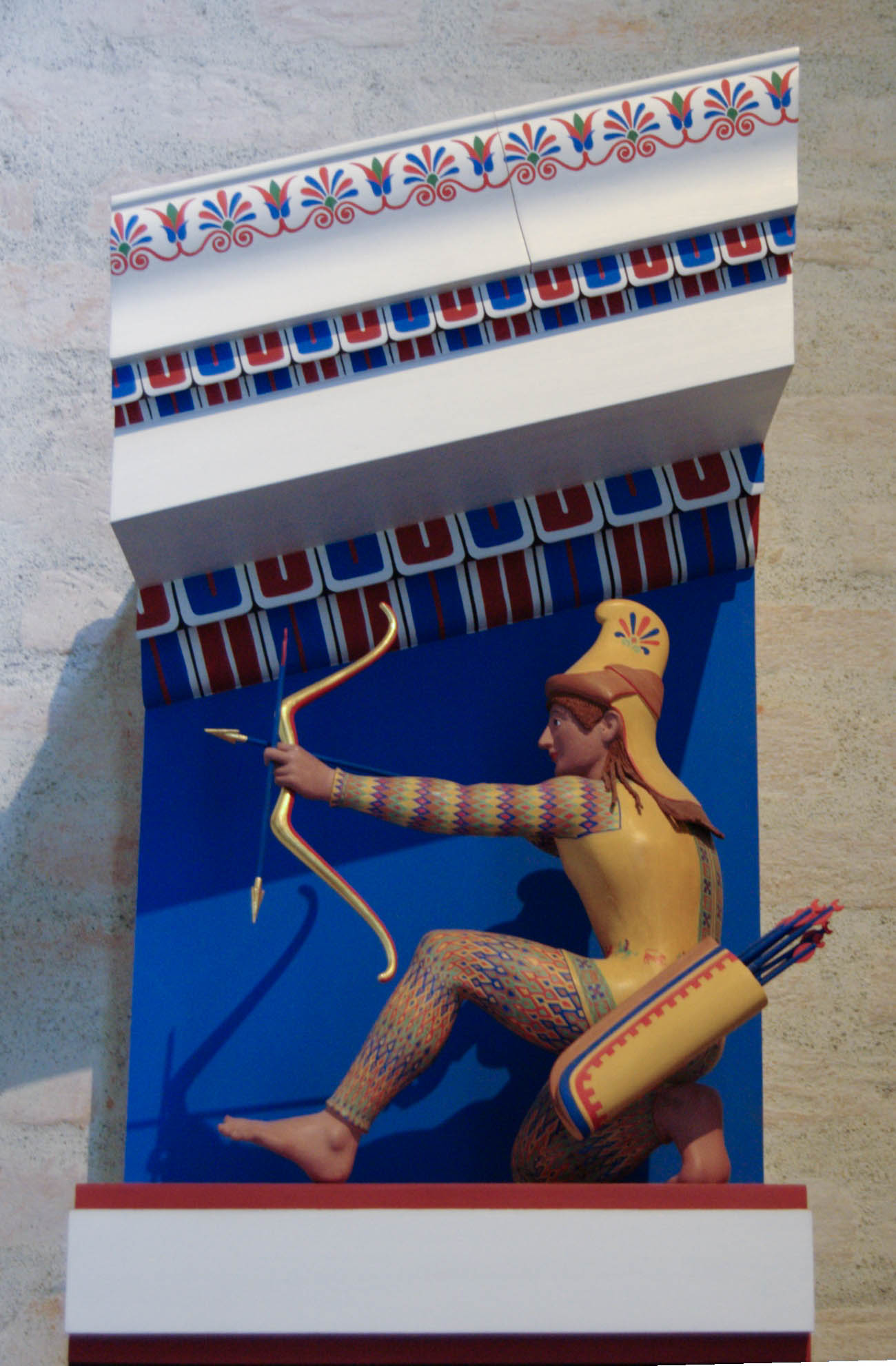 Polychrome small-scale model of the archer XI of the west pediment of the Temple of Aphaia, ca. 505–500 BC.